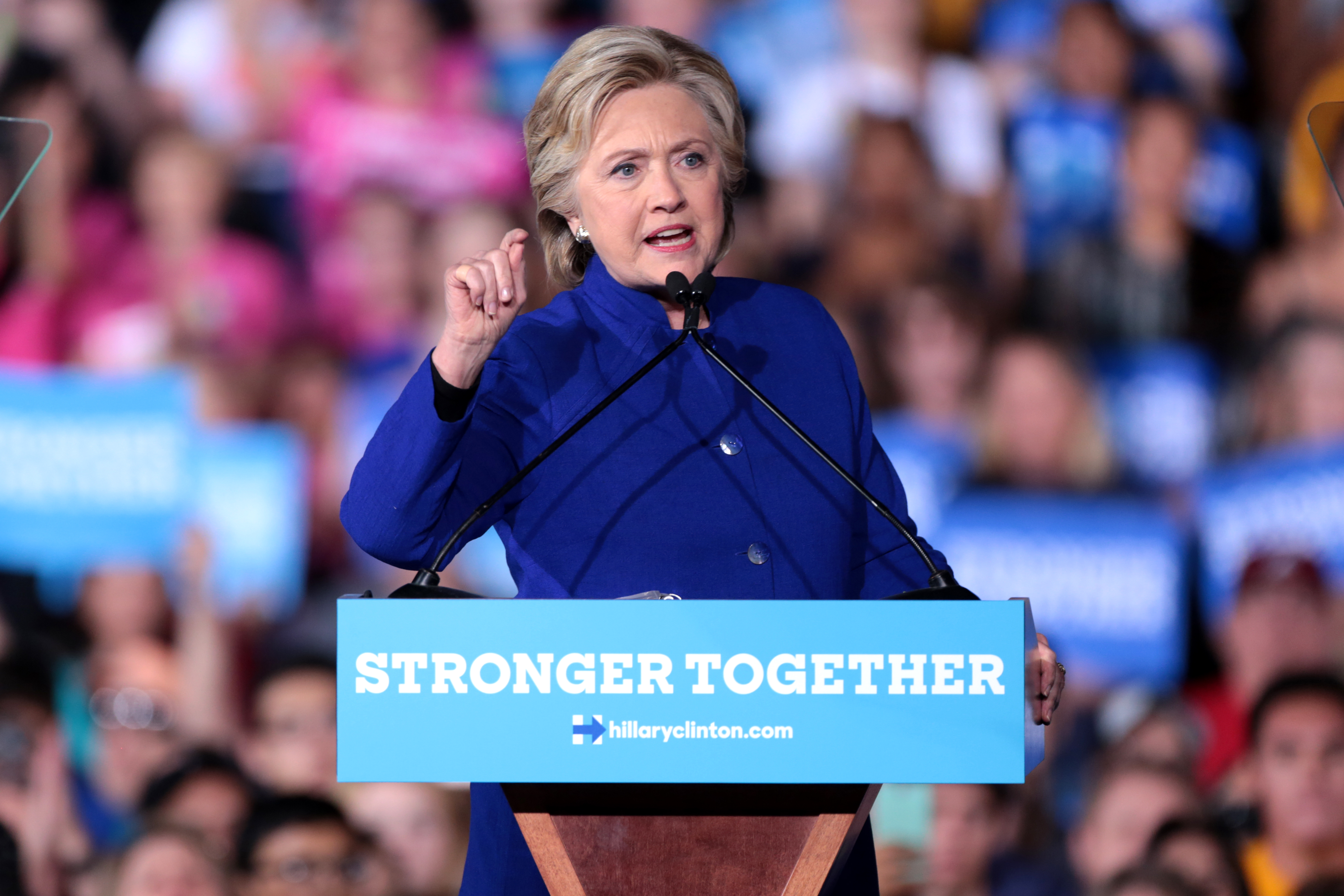 Former Secretary of State Hillary Clinton speaking with supporters at a campaign rally at the Intramural Fields at Arizona State University in Tempe, Arizona.